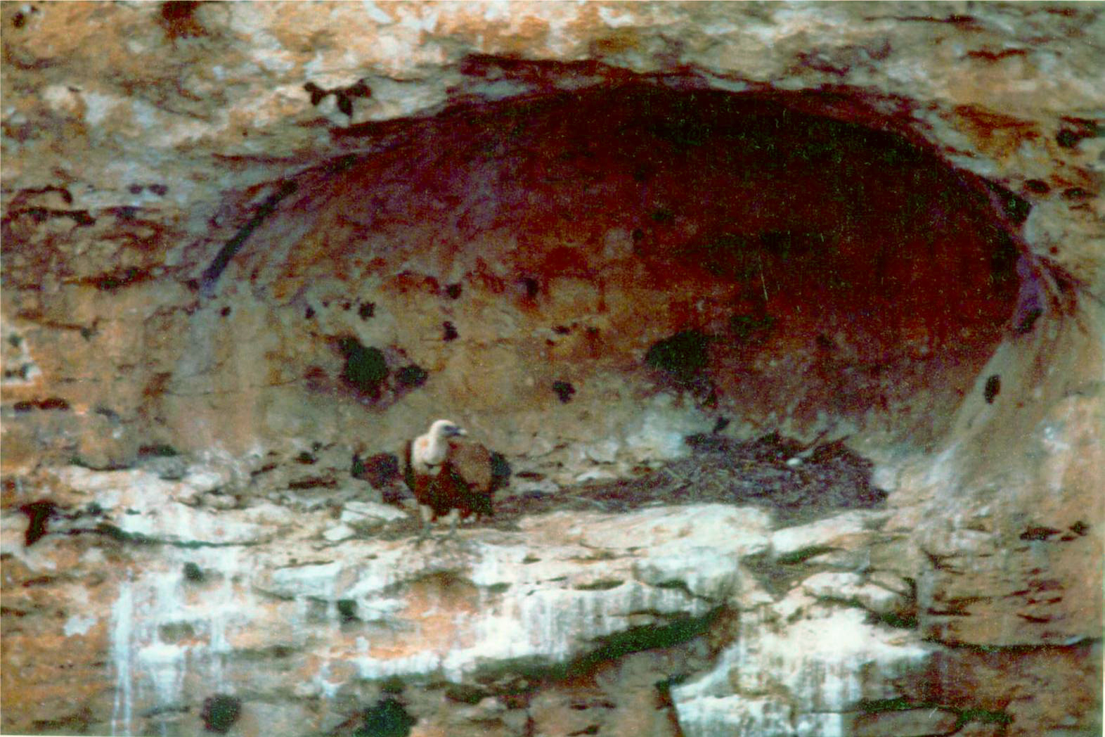 Image of Gyps fulvus.